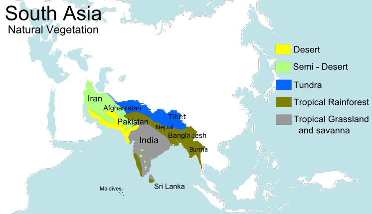 Natural vegetation zones in South Asia Tropical Rainforest tundras Desert Semi-desert Tropical Grassland and savanna